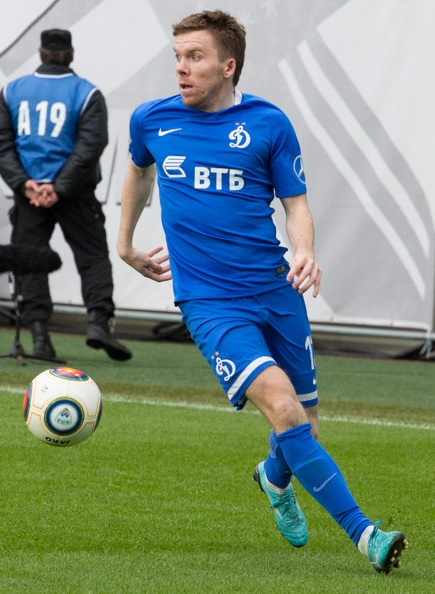 Sergei Terekhov with FC Dynamo Moscow in a game against FC Mordovia Saransk.